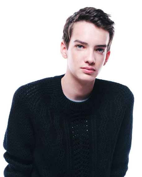 Kodi Smit-McPhee in Los Angeles